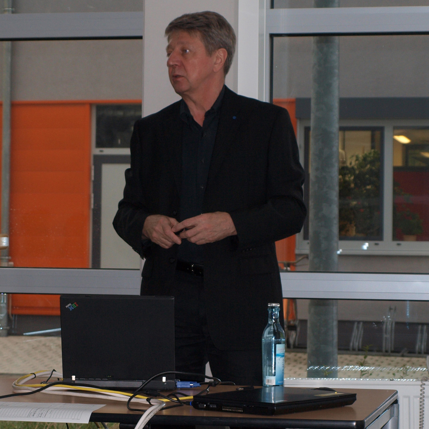 The Polish-US-American chemist Krzysztof Matyjaszewski in Darmstadt.